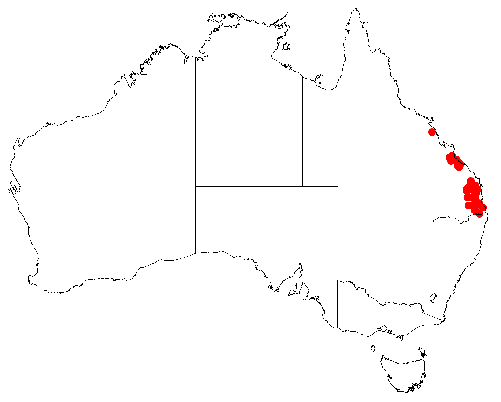 Parsonsia paulforsteri Occurrence data for Australia from Australasian Virtual Herbarium downloaded 22 December 2018